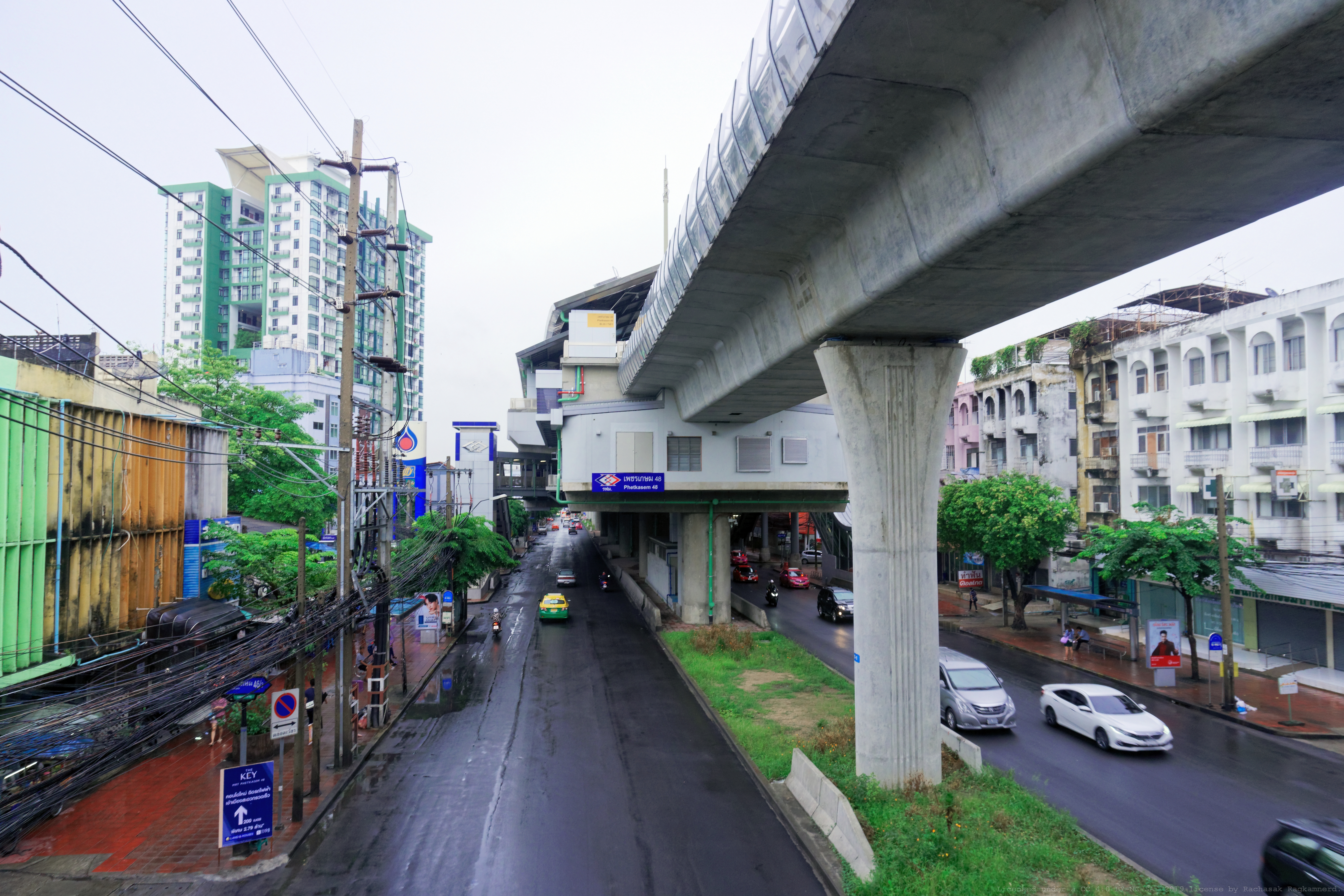 MRT Phetkasem 48 station: Station. View from a nearby pedestrian bridge.